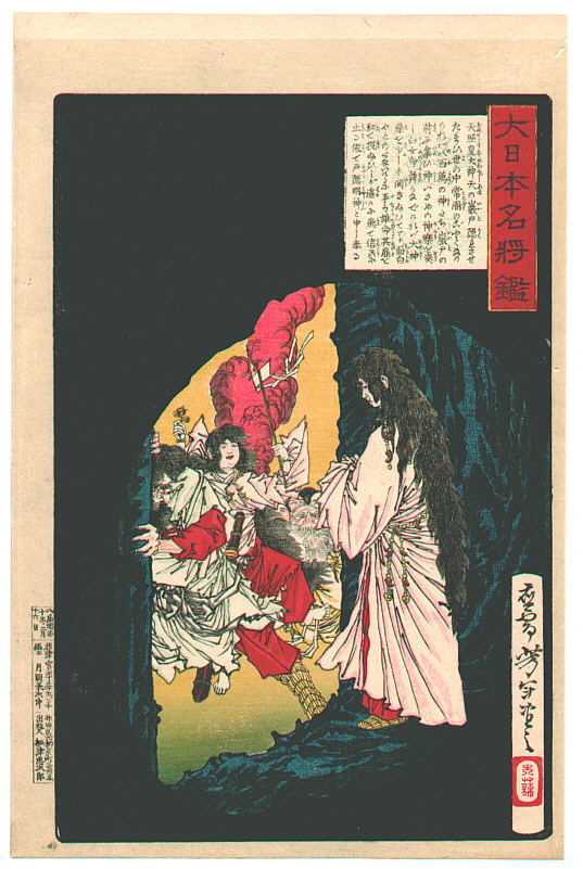 Amaterasu Ōmikami appearing from the cave.